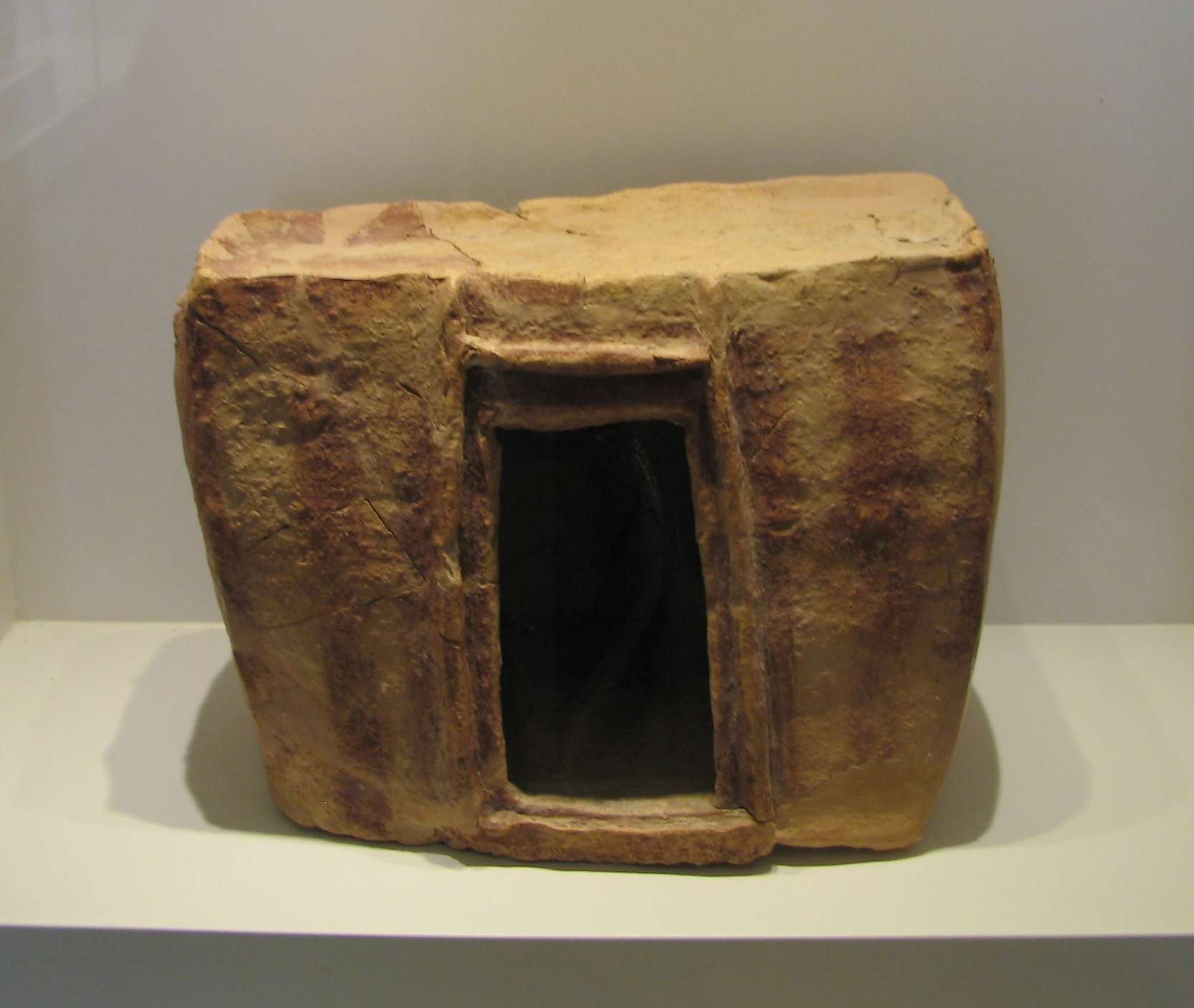 The Arad house a model house, was found in Tel Arad. Dated 3,000 - 2,650 BCE . Israel Museum, Jerusalem